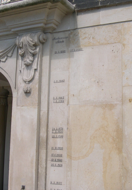 Flood levels in Dresden-Pillnitz Engraved signs show the flood level of the river Elbe on the walls of Pillnitz Castle. Note that the 2002 and 1845 levels are all about the same.